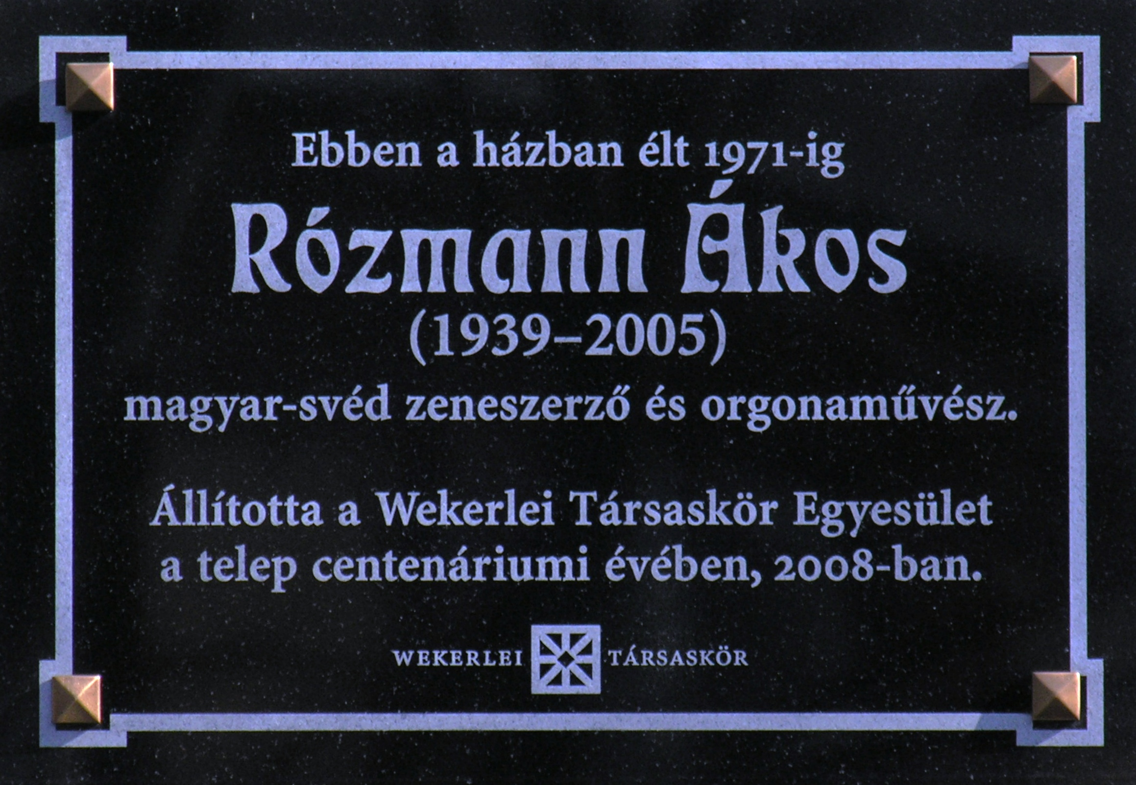 Commemorative plaque of Ákos Rózmann, Budapest District XIX, Tas Street No 2